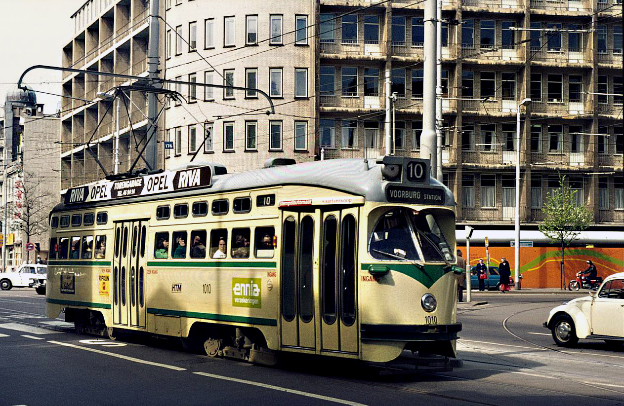 PCC car 1010, HTM, The Hague, The Netherlands, Spui, around 1975?